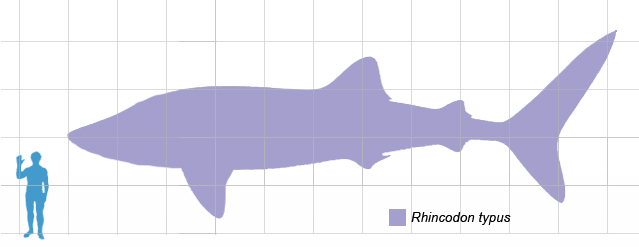 Whale shark Rhincodon typus compared in size with a human.